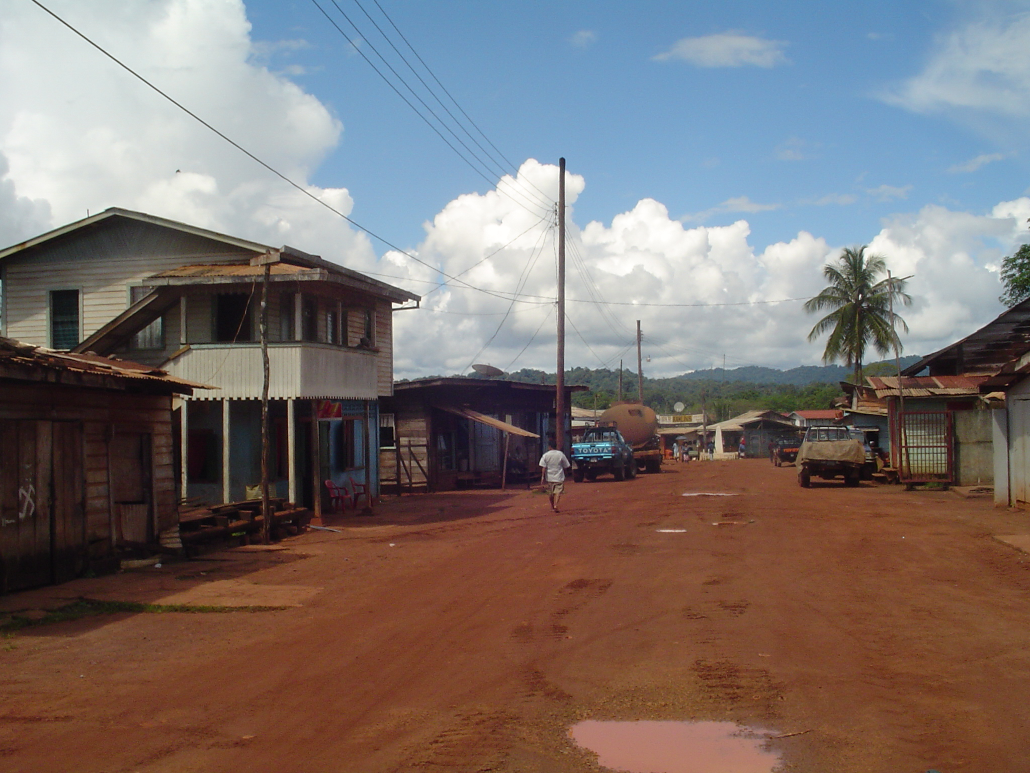 Part of the commercial area of Mahdia, Guyana, along the main road through the community; Commercial_area_in Mahdia.jpg